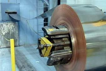 A 6000 pound coil of metal feeding into a blanking press, which punches out "cut blanks", which later become planchets.